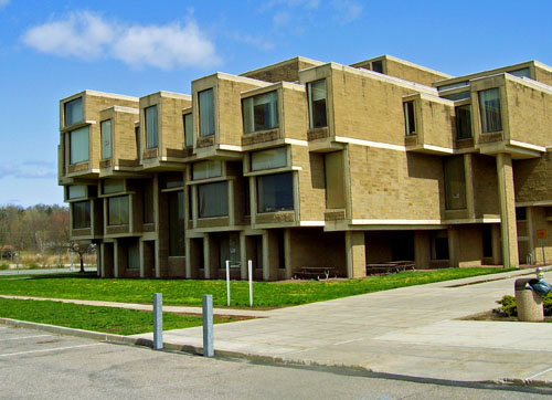 Photographed by Daniel Case on 2006-04-16